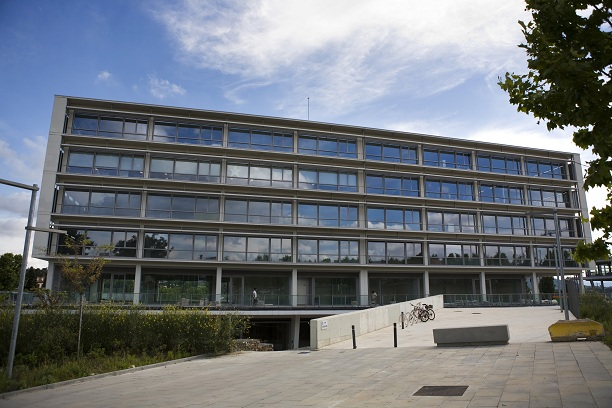 Picture of the building where is hosted the studio of Ubisoft Barcelona